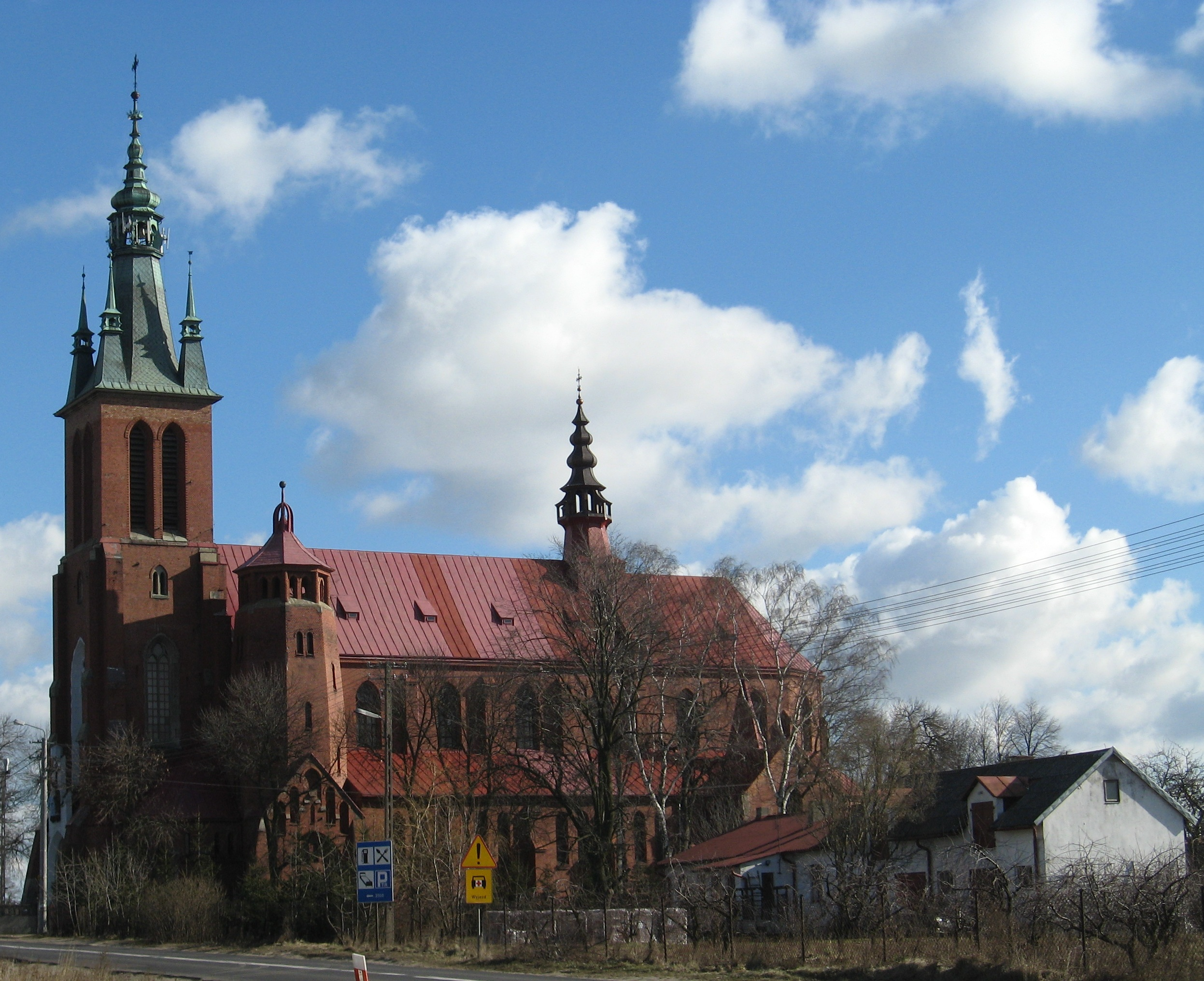 Church in Kurowice, Poland. - OpenStreetMap(Info)